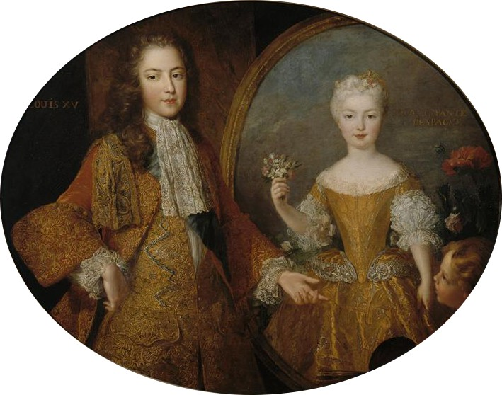 Portrait of Louis XV as a child pointing to a portrait of his fiancée the Infanta Mariana Victoria of Spain